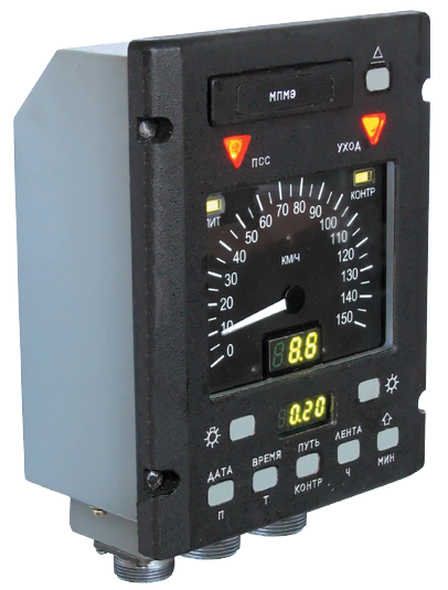 Electronic speed control unit KPD-3PV